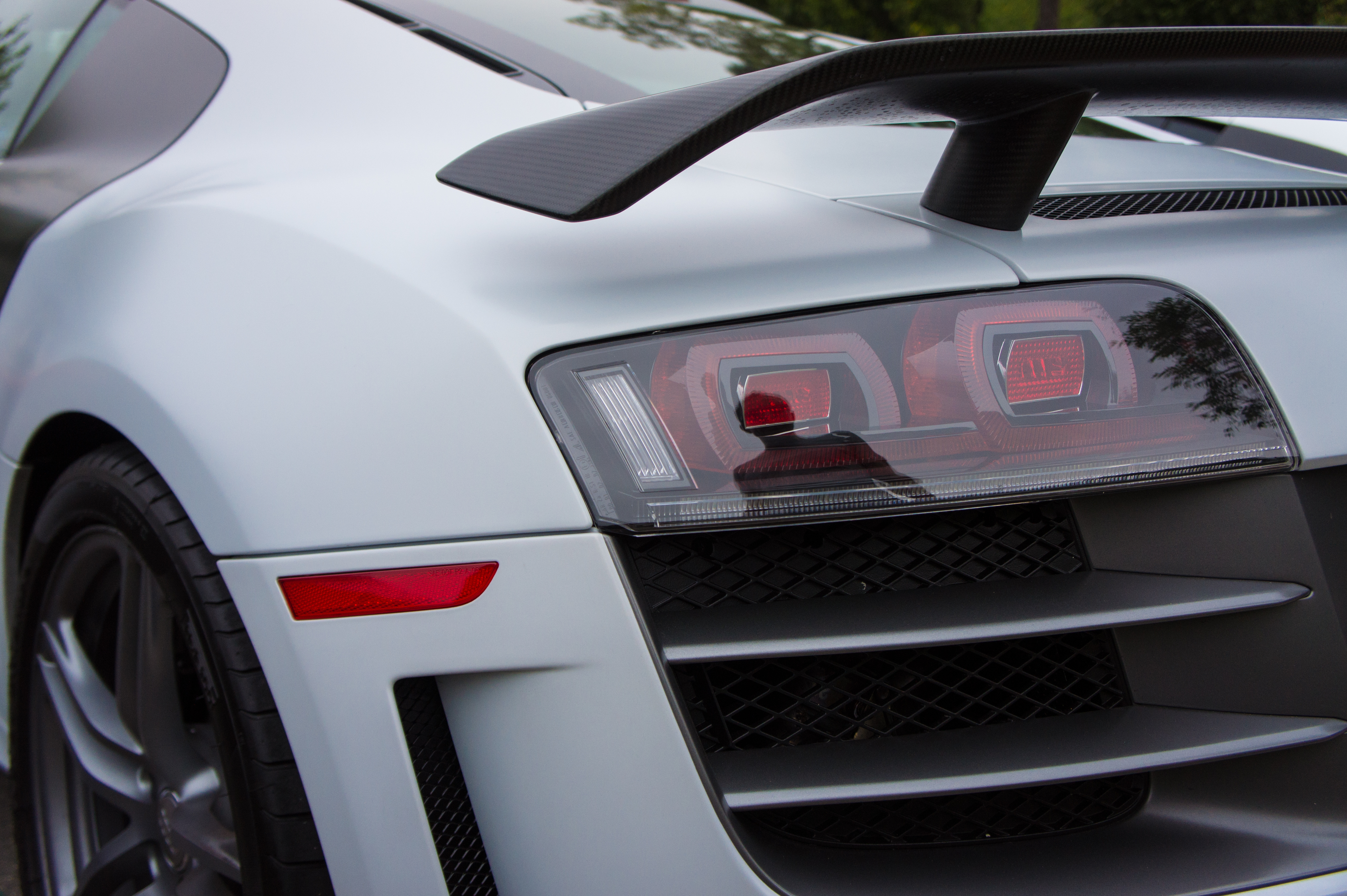 R8 GT Taillights